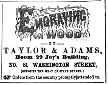 Ad for Taylor & Adams, engravers (James L. Taylor, Thomas W. Adams); Boston